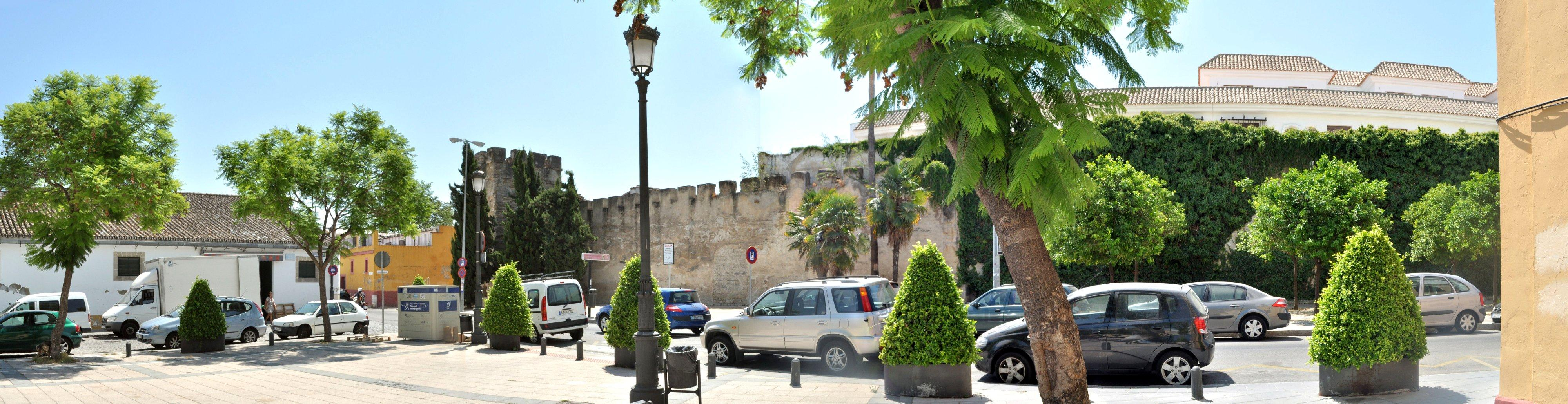 Muro Street in Merced Square, Jerez